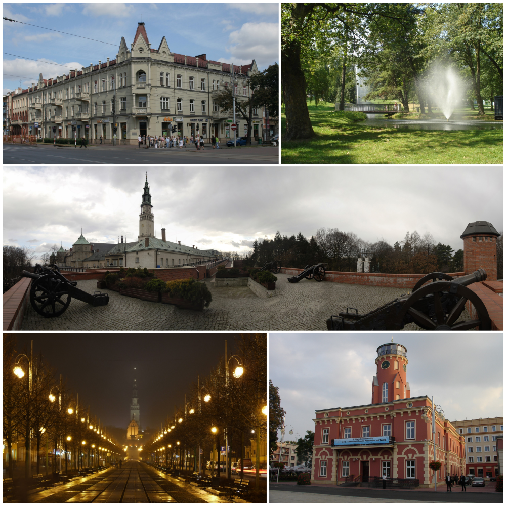 Stanisław Staszic's Park in Częstochowa, Poland